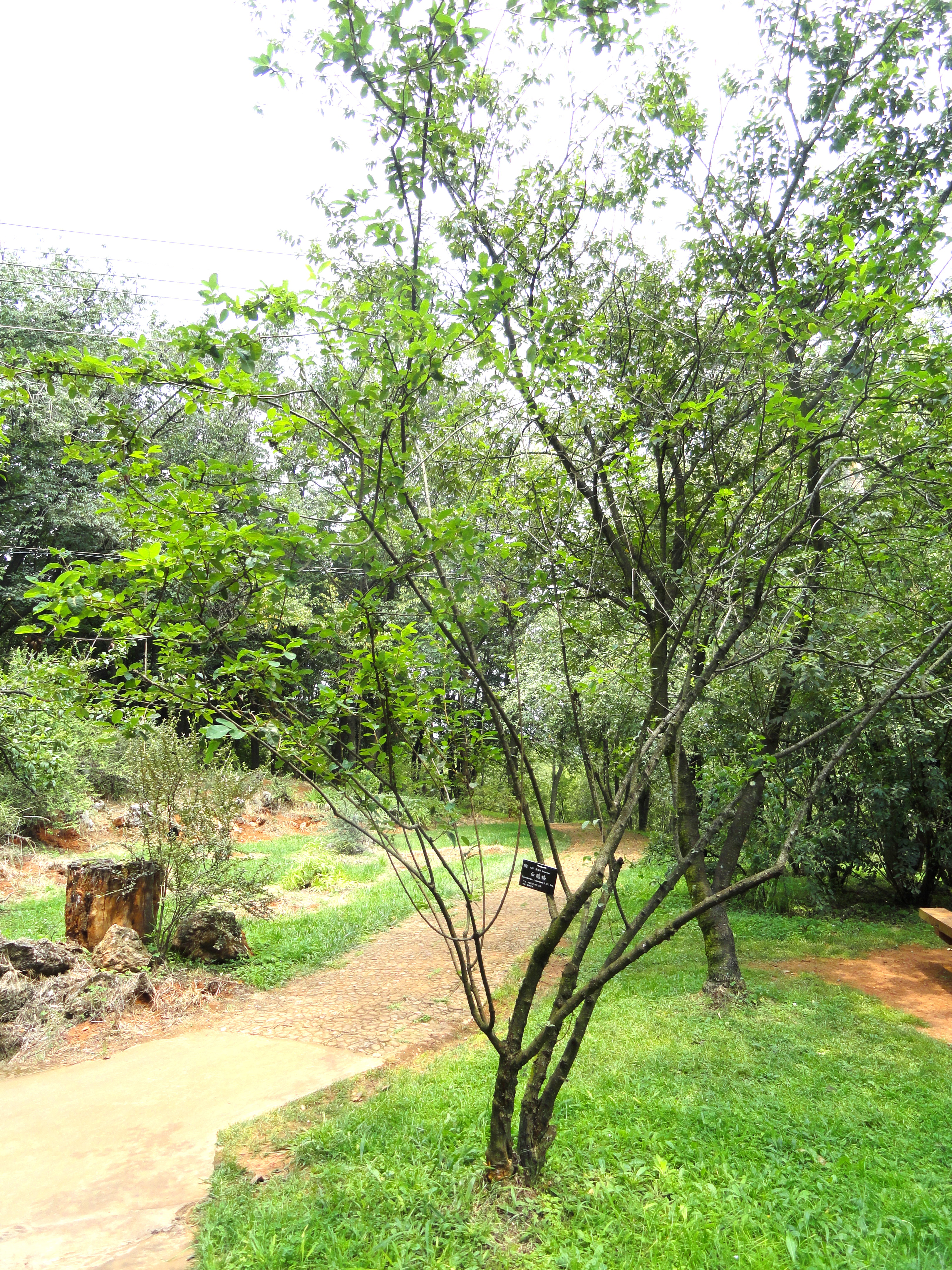 Plant specimen in the Kunming Botanical Garden, Kunming, Yunnan, China.